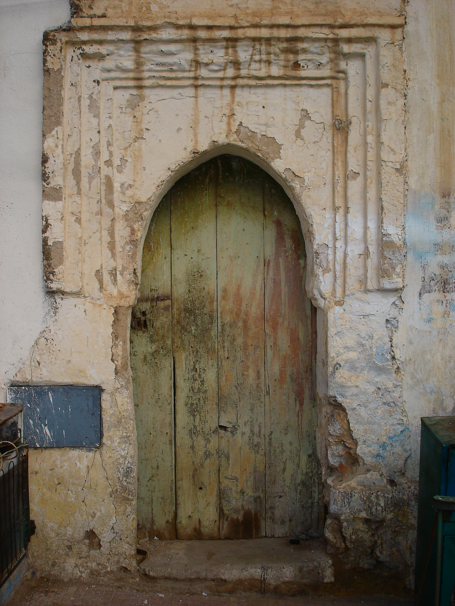 The door in the typical house of Debdou village in Morocco oriental.